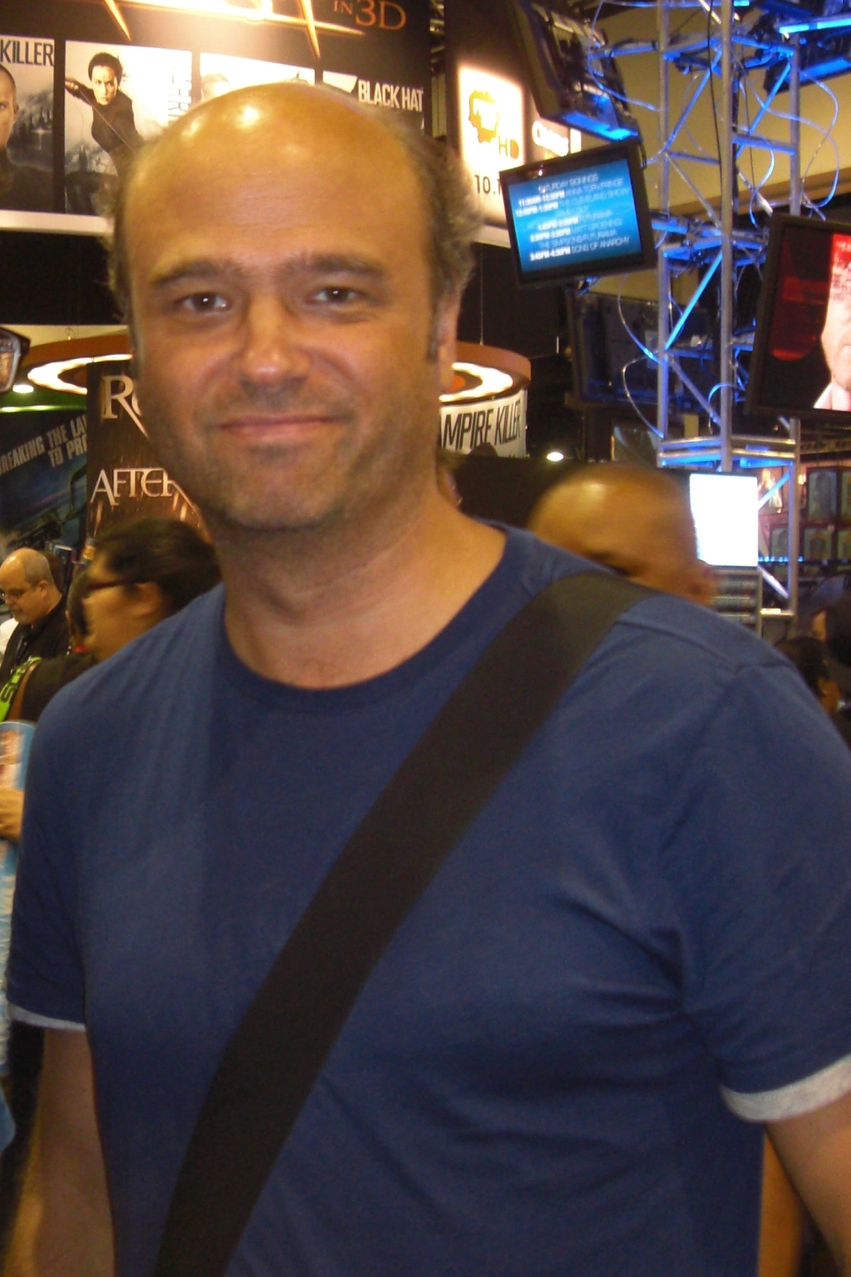 Cropped portion of original on Flickr; Chance Run In with Scott Adsit Camera: Casio EX-S880 License on Flickr (2011-01-09): CC-BY-SA-2.0 Flickr tags: Scott Adsit